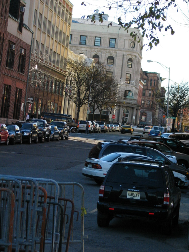 Looking west from the corner of Newark and River Streets, Hoboken, NJ